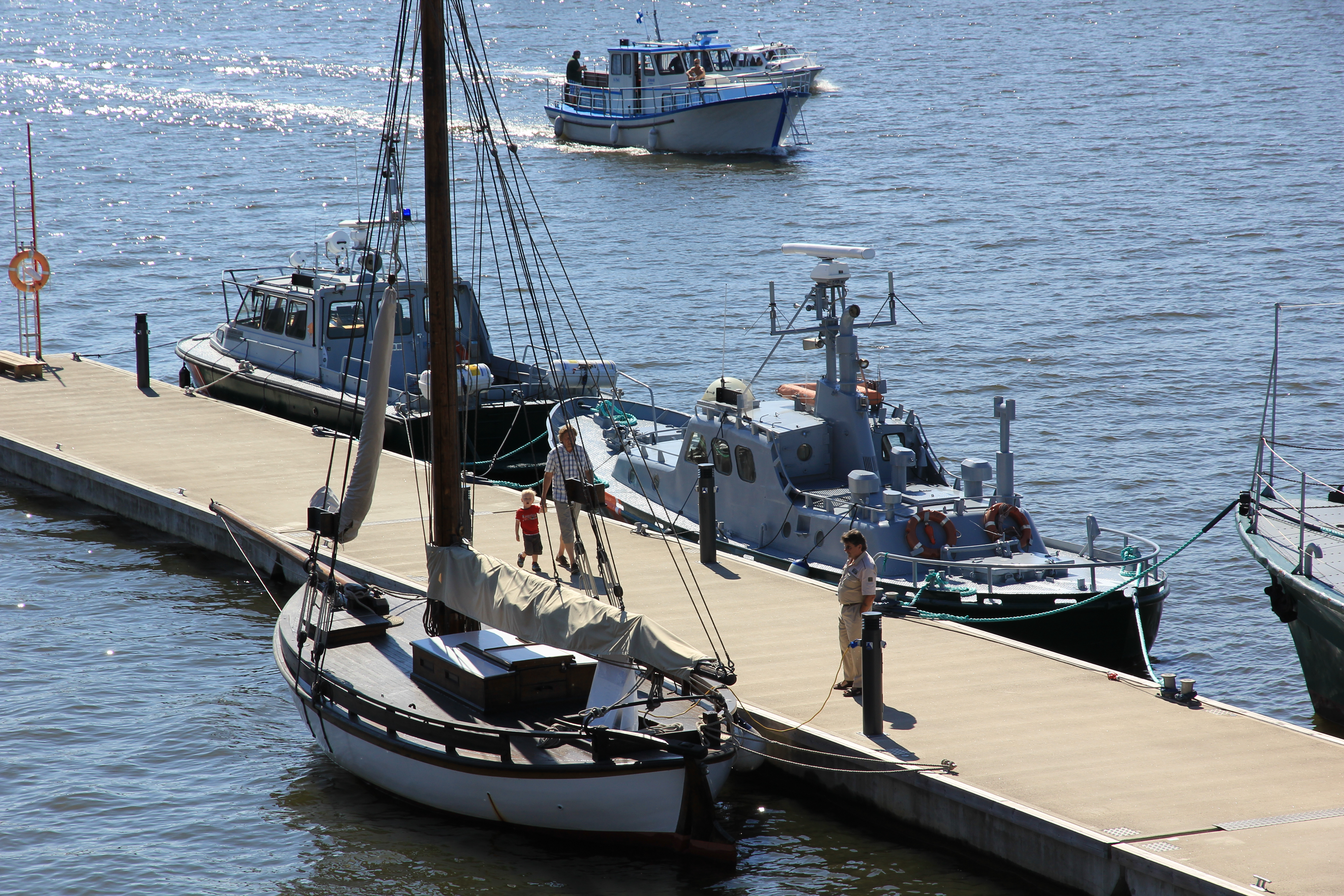 Former Finnish coast guard patrol boats RV 125 and PV 210 and the pilot cutter Pitkäpaasi as museum ships in maritime centre Vellamo.